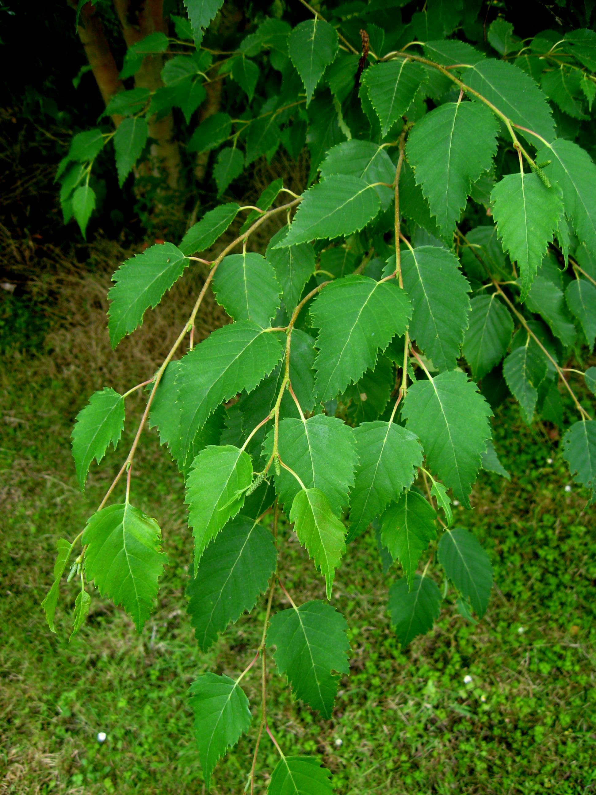 Photo of the foliage of Betula grossa, taken at Sir Harold Hillier Gardens, England